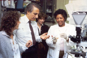 Robert Gallo, co-discoverer of the HIV virus, in the early eighties among (from left to right) Sandra Eva, Sandra Colombini, and Ersell Richardson.